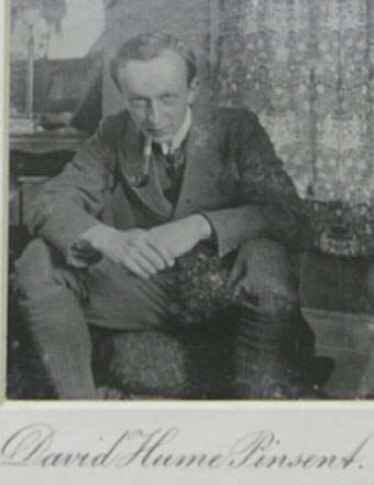 David Pinsent crouched